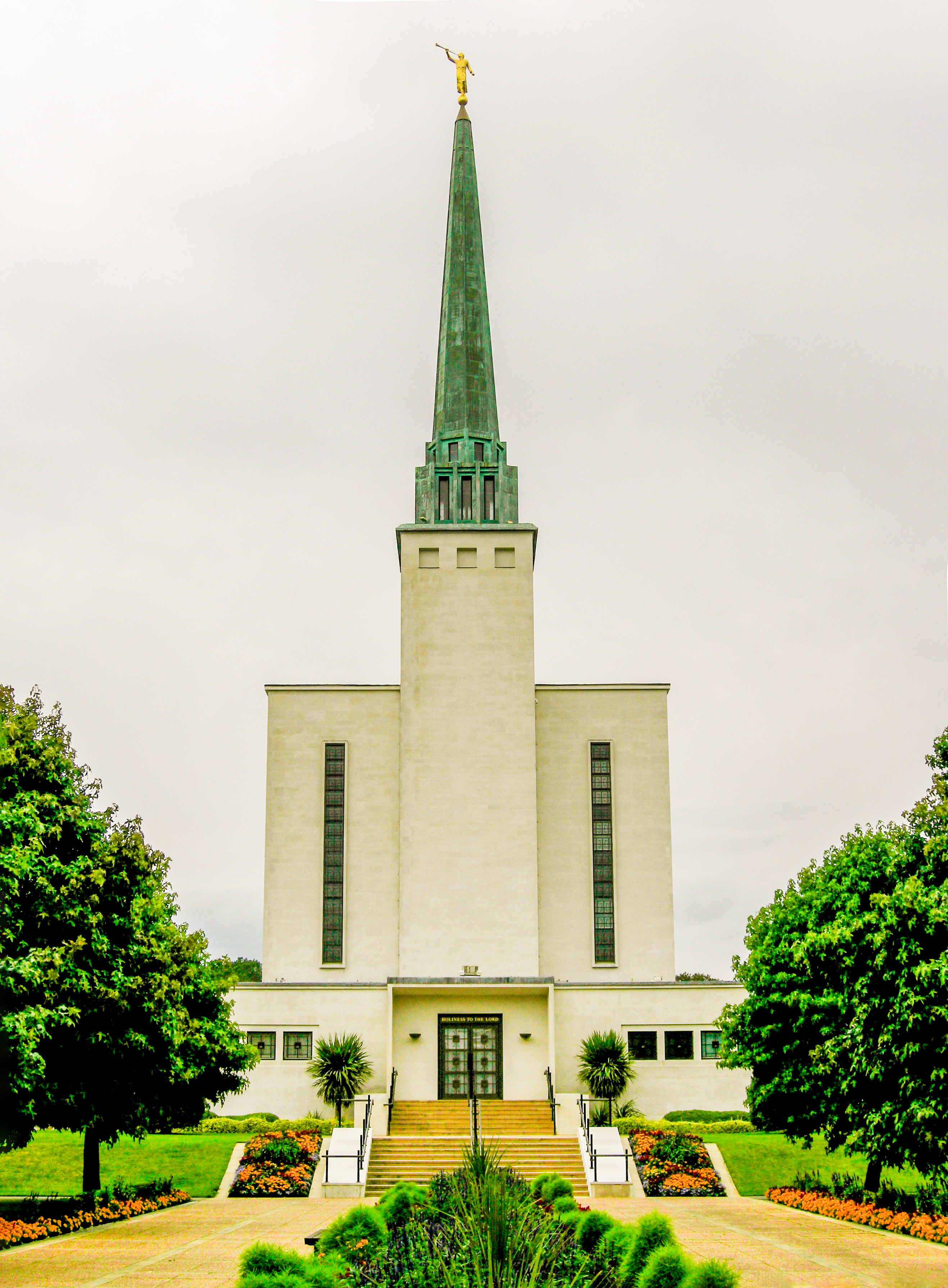 The London England Temple of The Church of Jesus Christ of Latter-day Saints. Newchapel, Surrey, England. Built 1958.